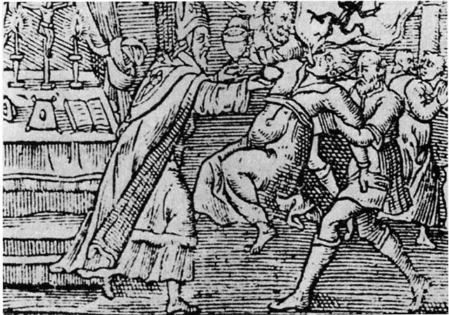 A woodcut from 1598 shows an exorcism performed on a woman by a priest and his assistant, with a demon emerging from her mouth